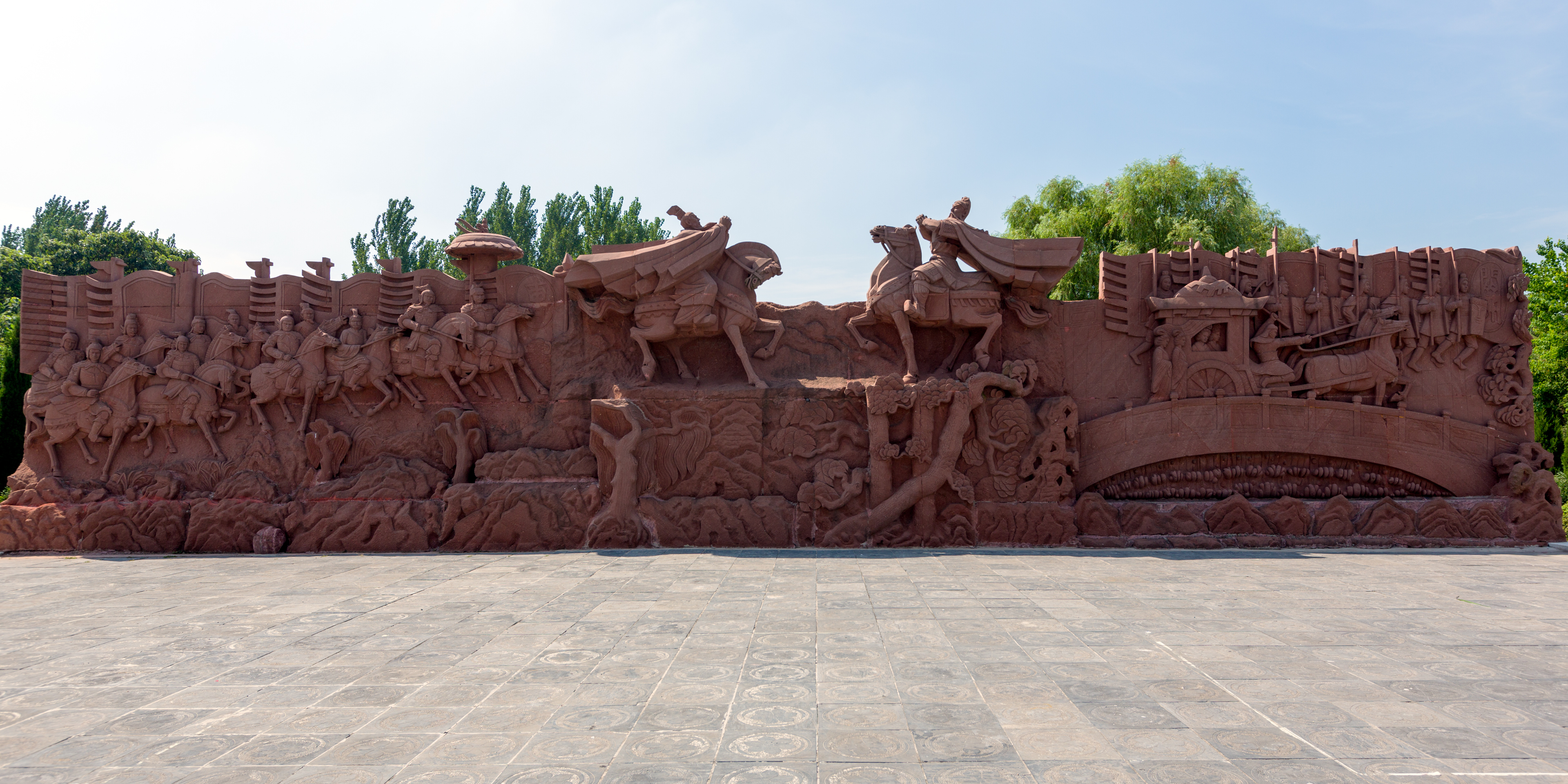 Guan Yu bids farewell to Cao Cao sculpture